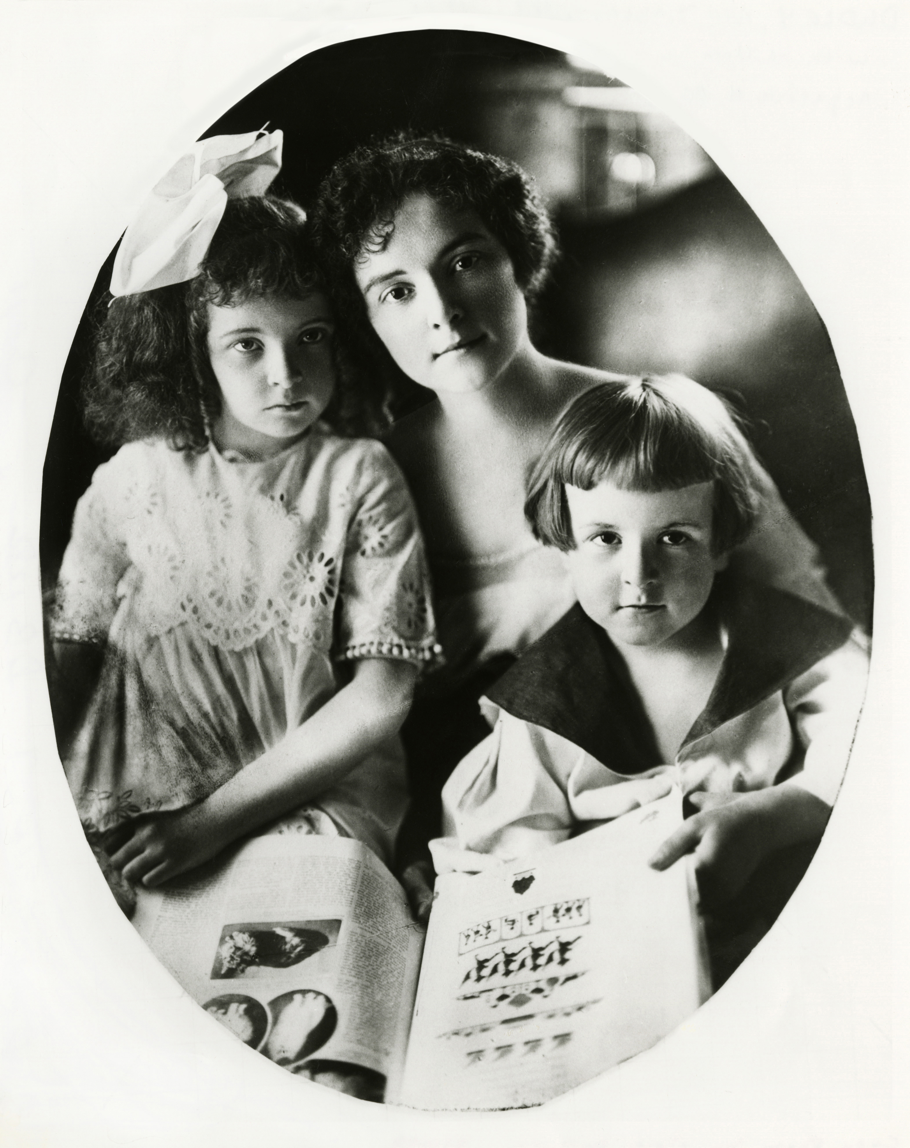 Women's suffrage activist Anne Dallas Dudley (1876–1955) with her children, Guilford Dudley, Jr. (1907–2002) and Trevania Dallas Dudley (1905–1924). This photograph was widely circulated with suffrage publicity materials in an effort to counteract stereotypes of suffragists as mannish radicals.[1]